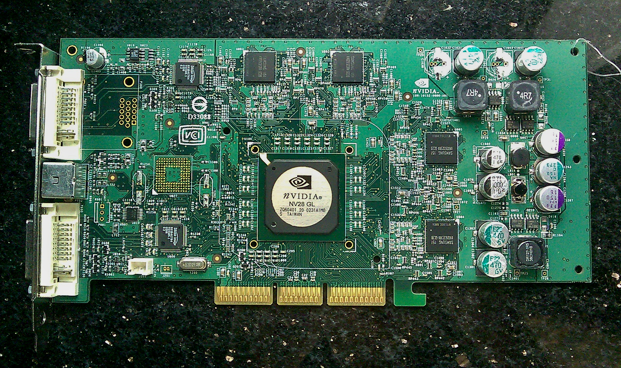 NVIDIA Quadro4 980 XGL Graphic card